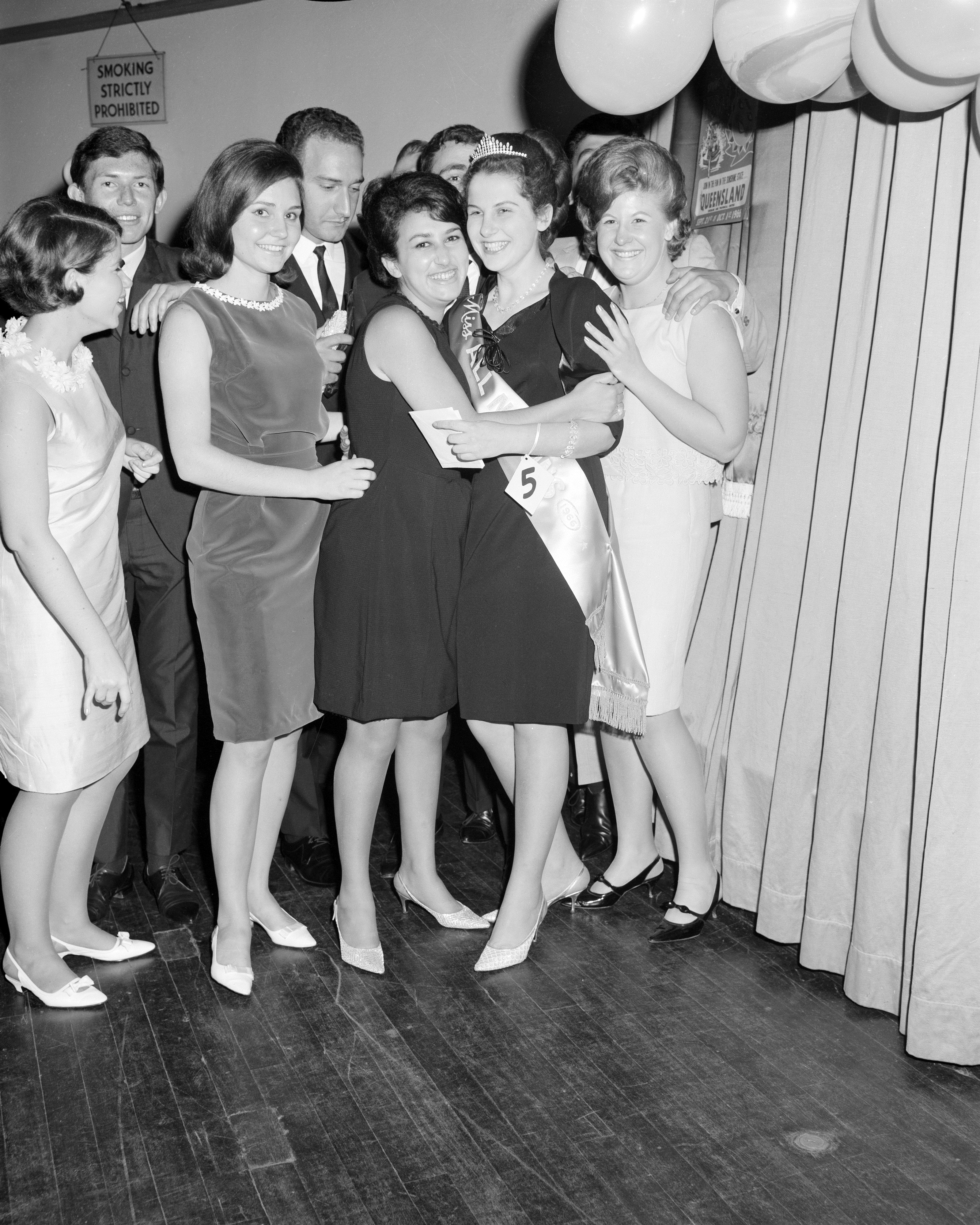 Tania Ribchenkov (Russia) is rushed by fellow university students after being announced as winner of the 1966 Miss All Nations contest. The contest was held as part of Brisbane's annual spring festival, Warana.